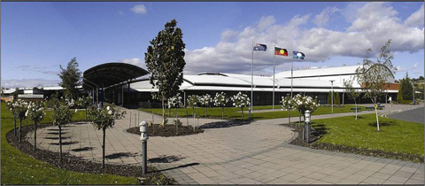 Front of newstead College View